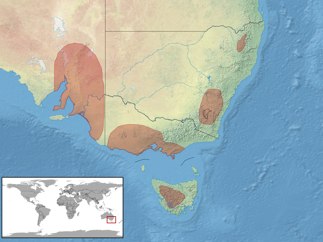 geographic distribution of Pseudemoia pagenstecheri